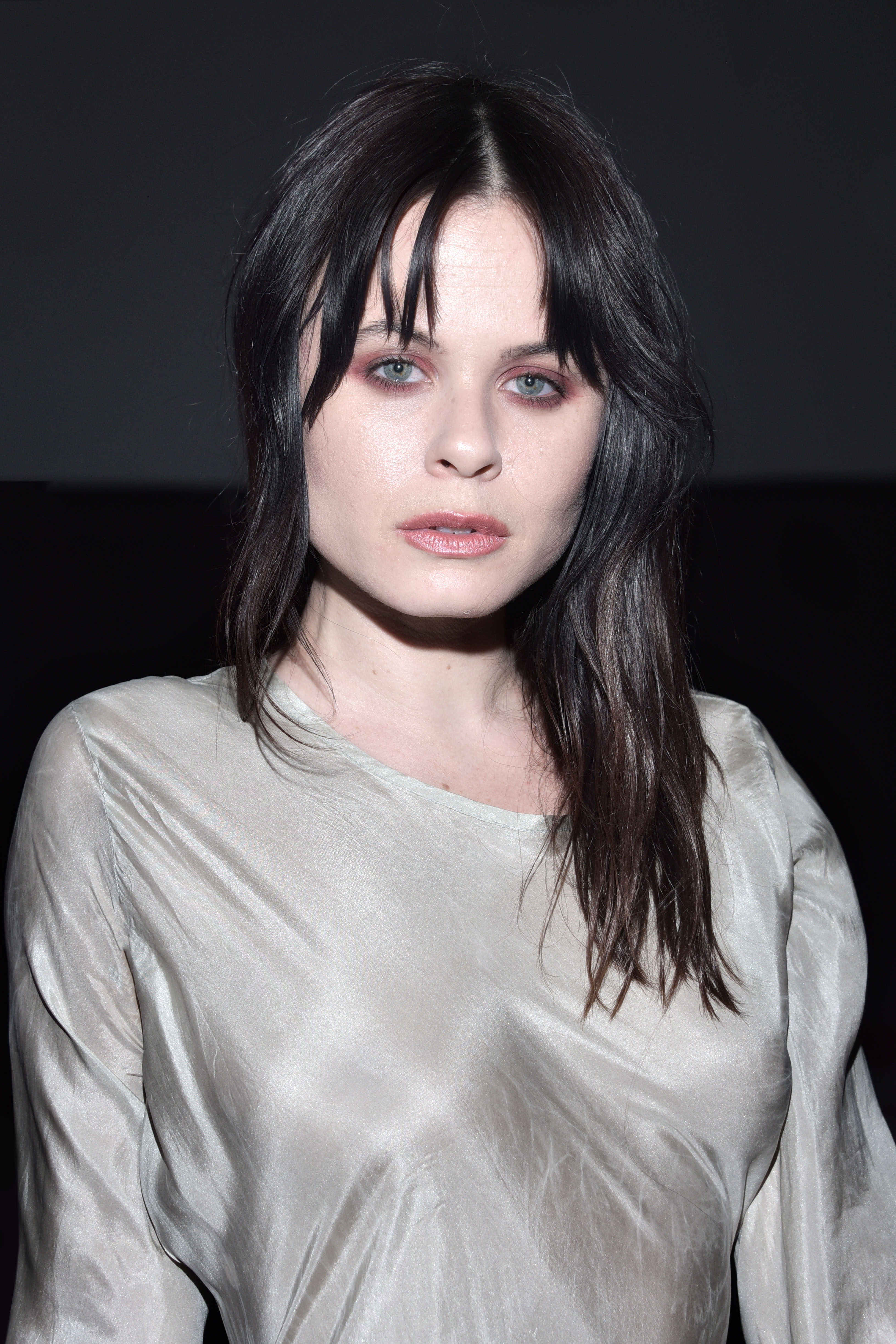 Augie Duke, Beverly Hills, California on April 28, 2017 - Photo by Glenn Francis of